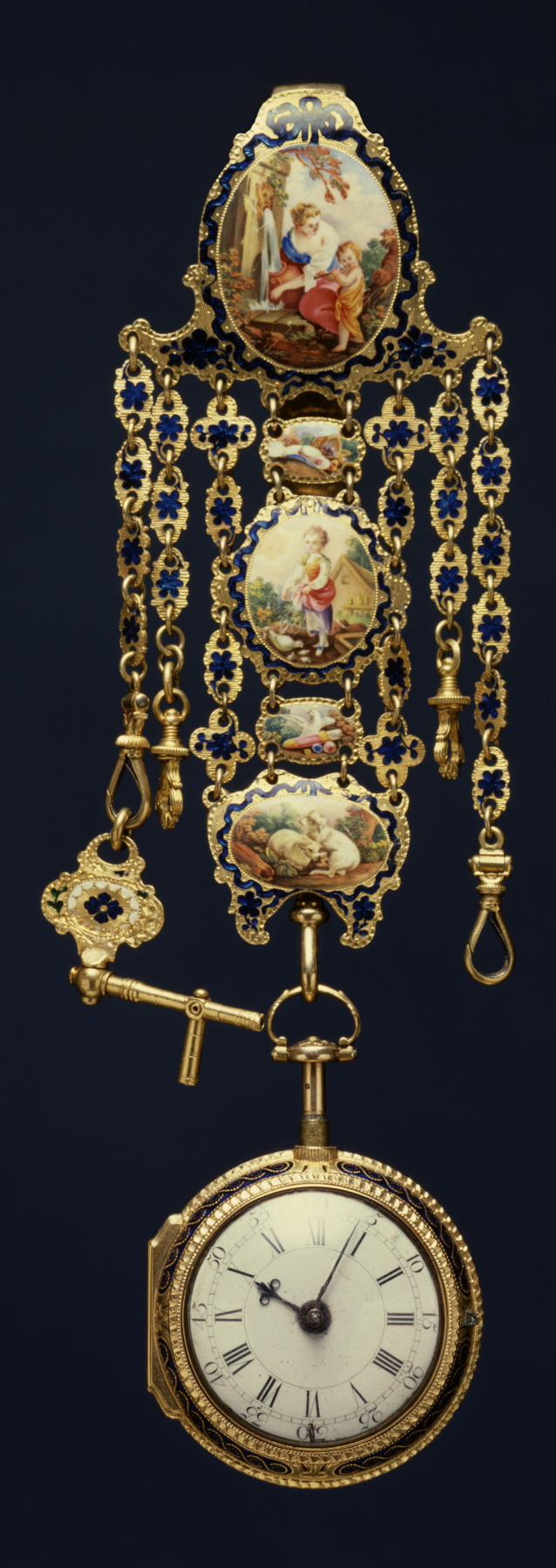 The watchcase is decorated with a scene of blindman's buff, and the chatelaine has pastoral views in painted enamel. Daniel de St. Leu served as watchmaker to King George III (1760-1820).